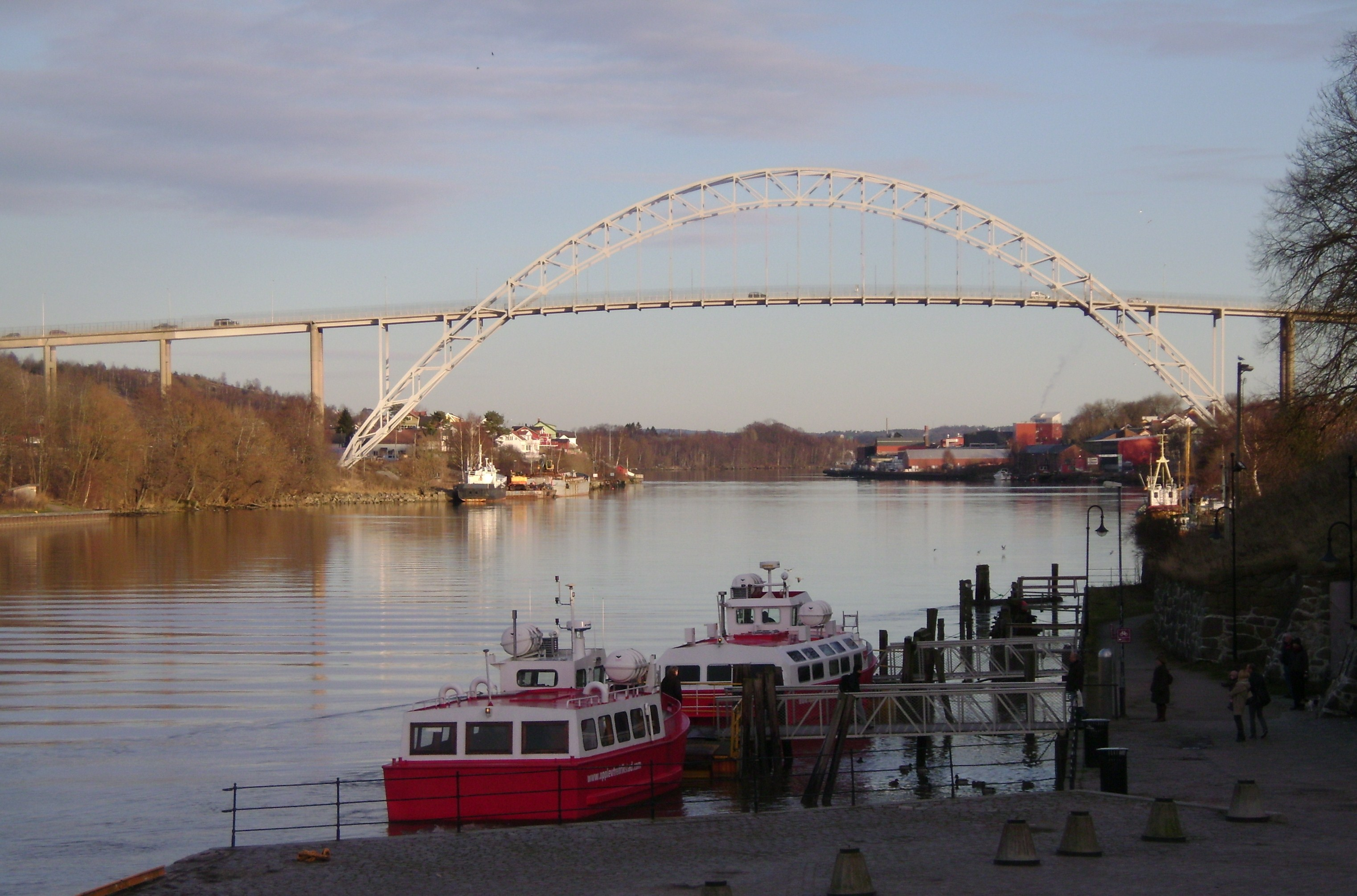 Bridge over the Glomma seeing from the old town